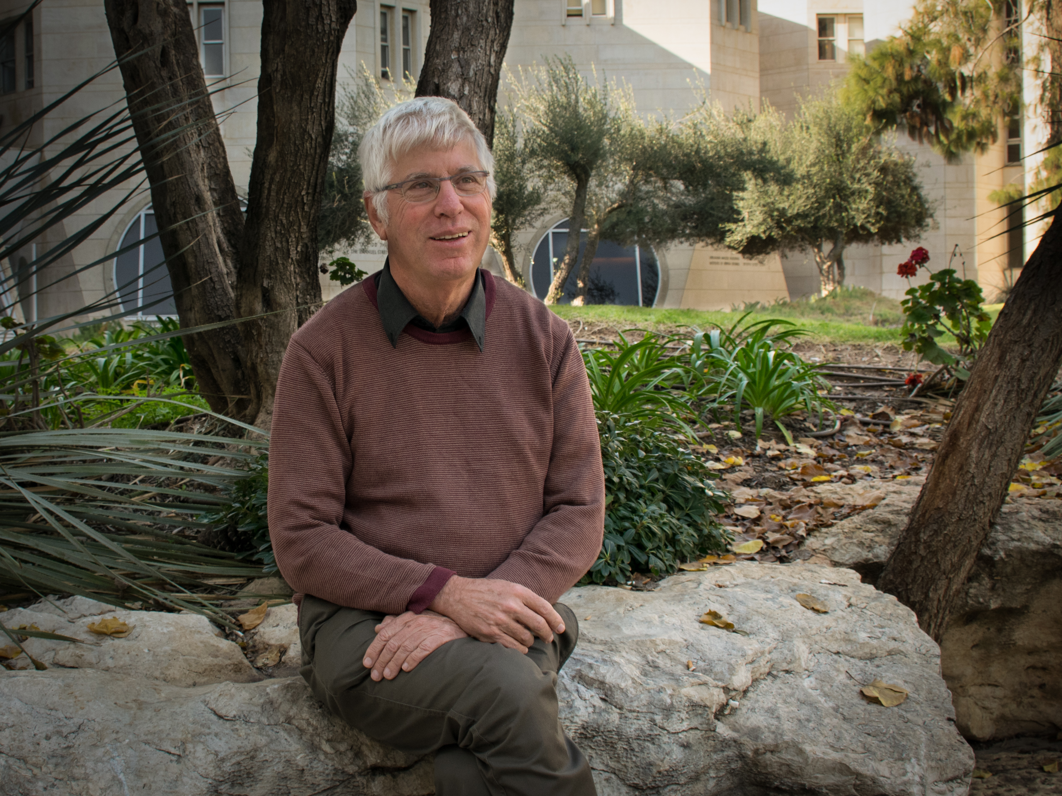 Professor Amihai Mazar